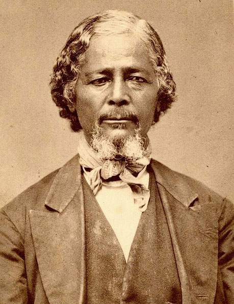 A photo of Benjamin "Pap" Singleton.